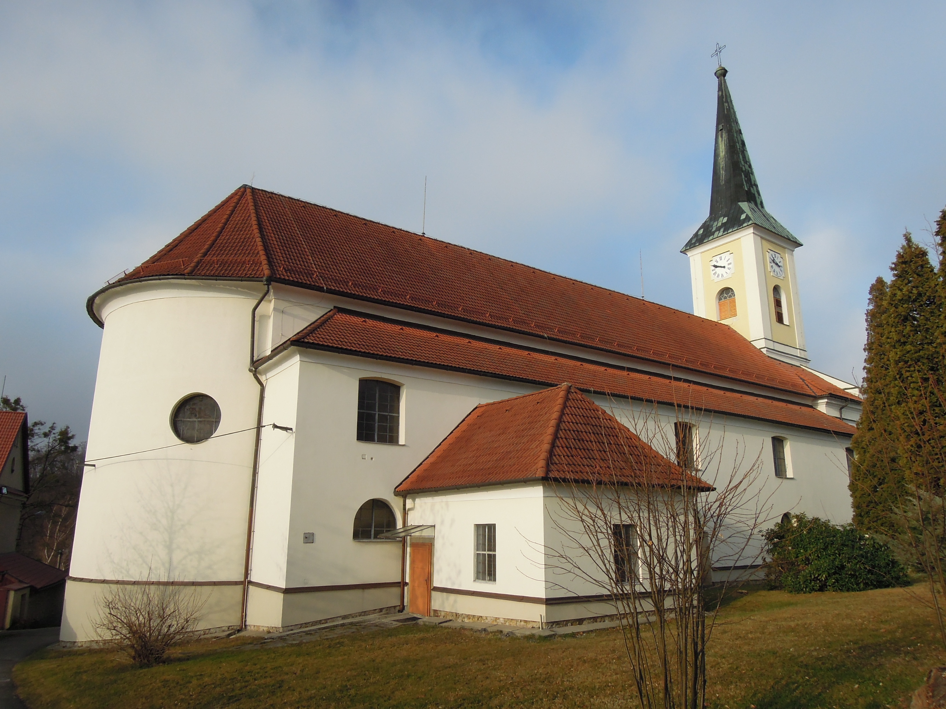 Church of Saint Catherine in Zubří, Vsetín District, Zlín Region, Czech Republic